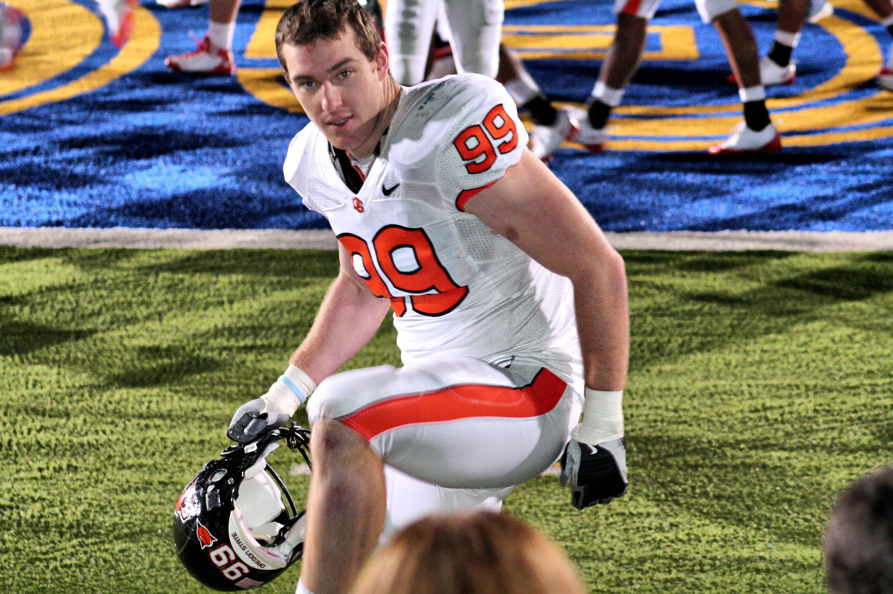 Gabe Miller playing for Oregon State University in 2009.